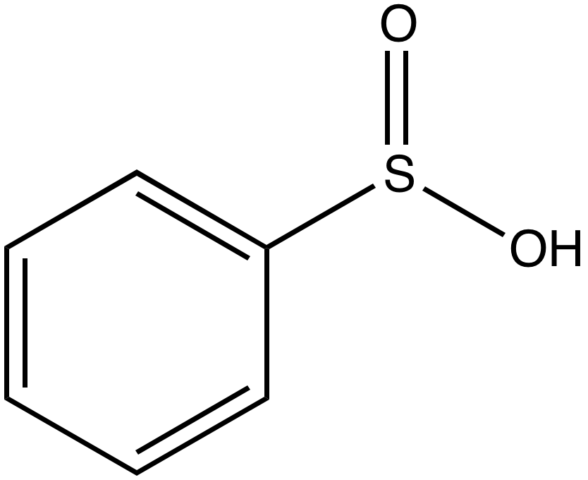 2-dimensional skeletal image of phenylsulfinic acid